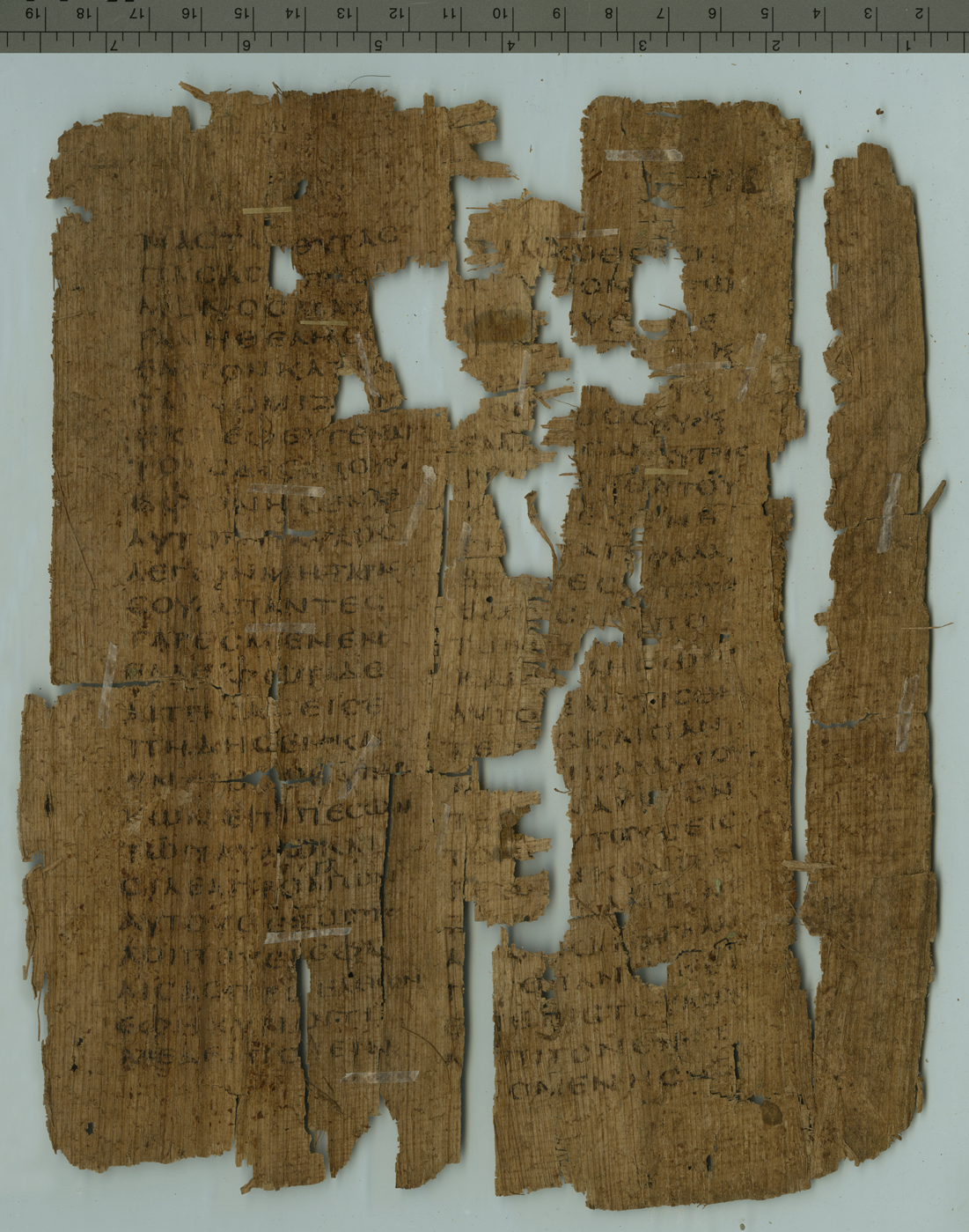 fragment of the Book of Acts, f. 7v